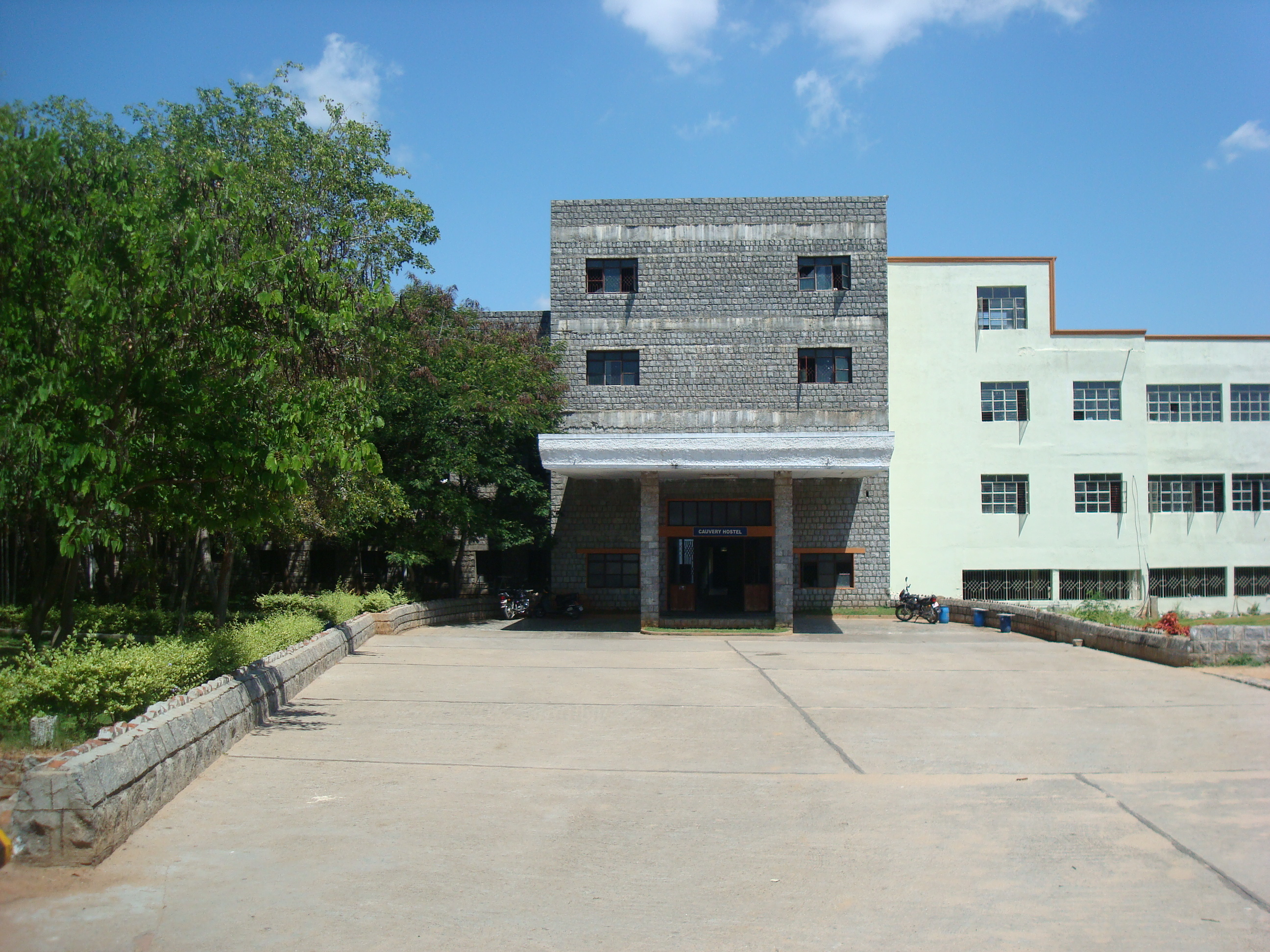 ACE - Cauvery Hostel.